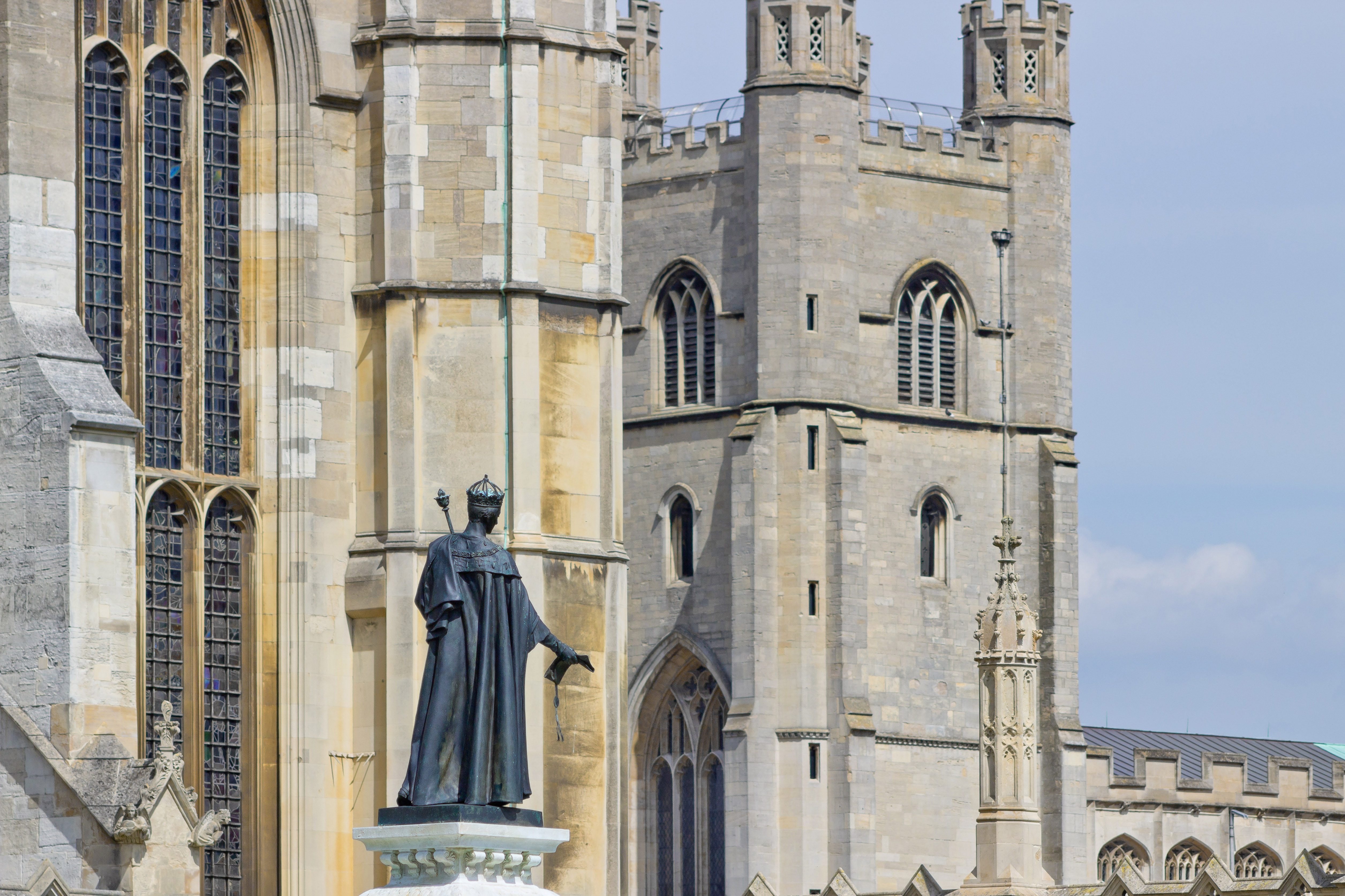 Statue to King Henry VI on the fountain of the Front Court of King's College, Cambridge. Background: King'College Chapel and Great St Mary's Church.